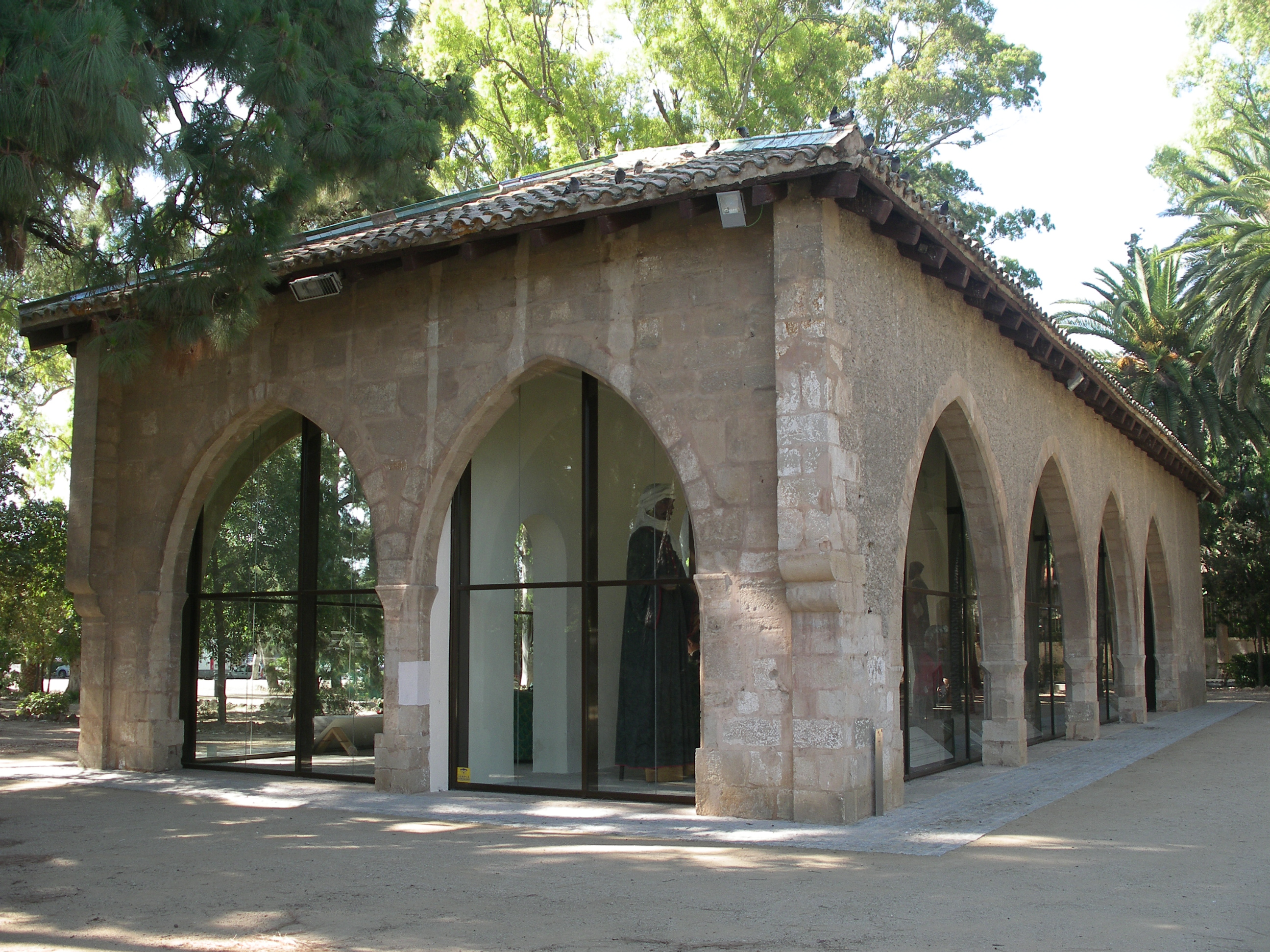 Llotja de Tortosa